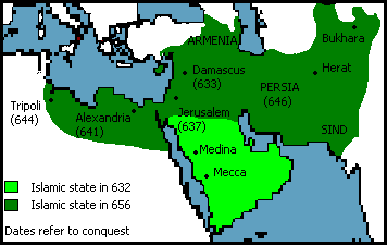 Author: Sameer Zaheer Source: To draw the image, the author used page 27 of ISBN 1405109009 (Islam, by Tamara Sonn).